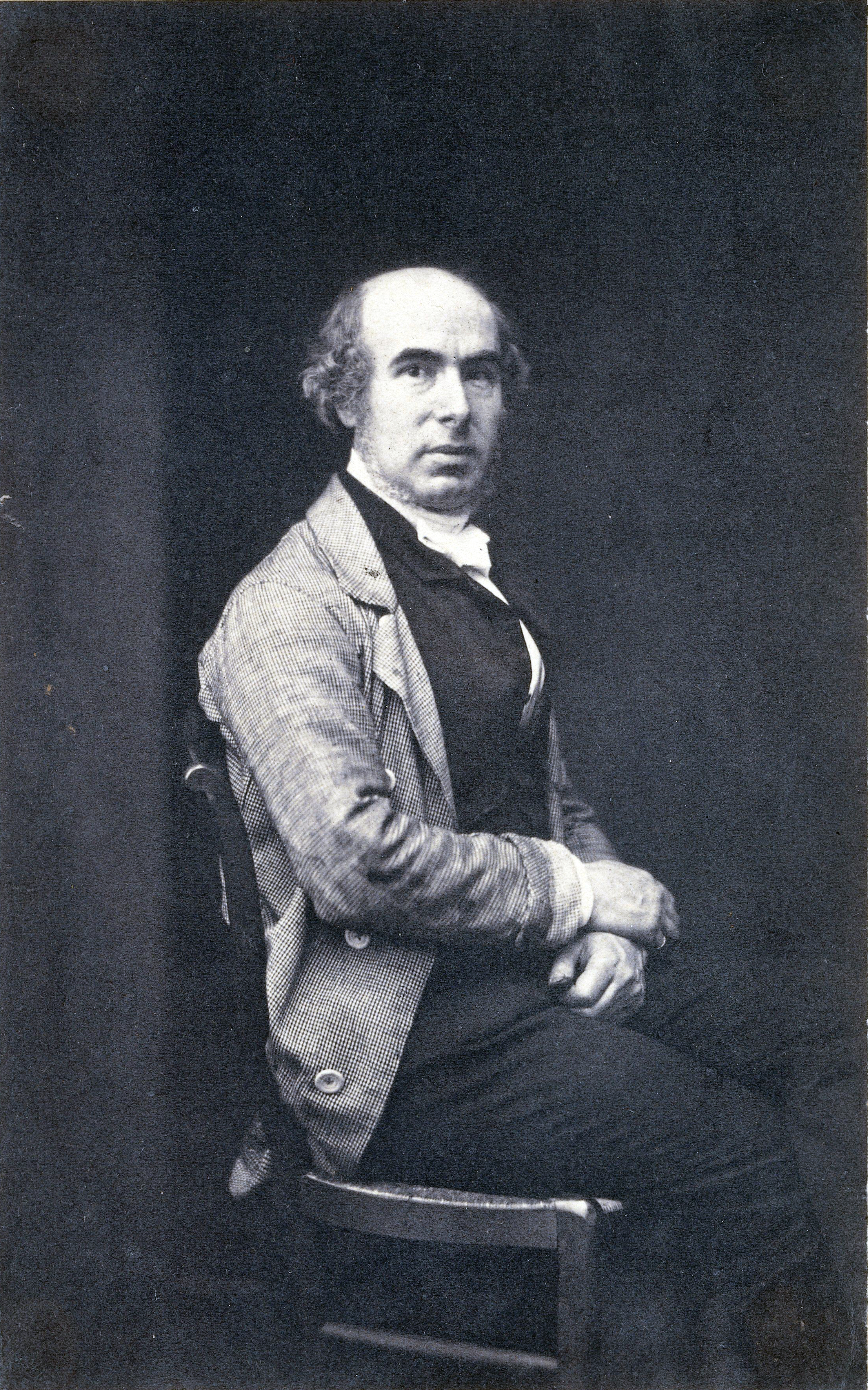 Zelfportret